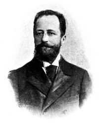 Photographic portrait of Wilhelm Filehne